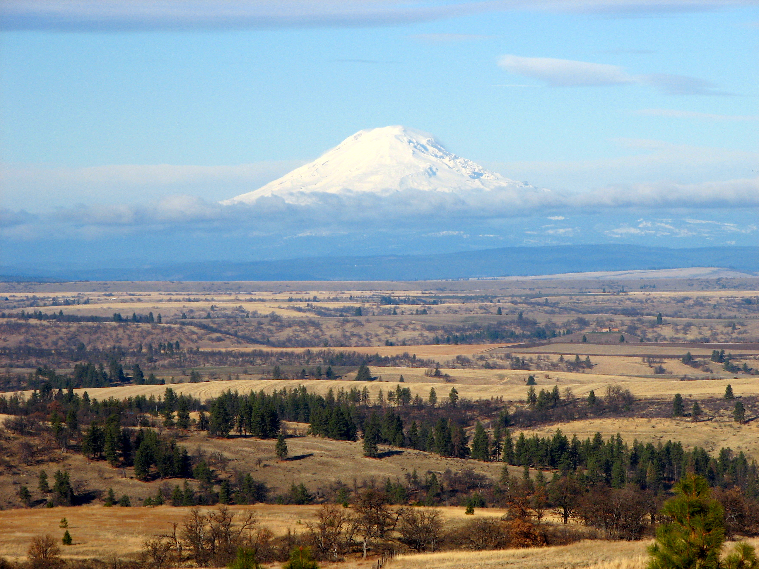 Mount Adams in Washington state, United States, as viewed from the south across the steppes of north central Oregon.